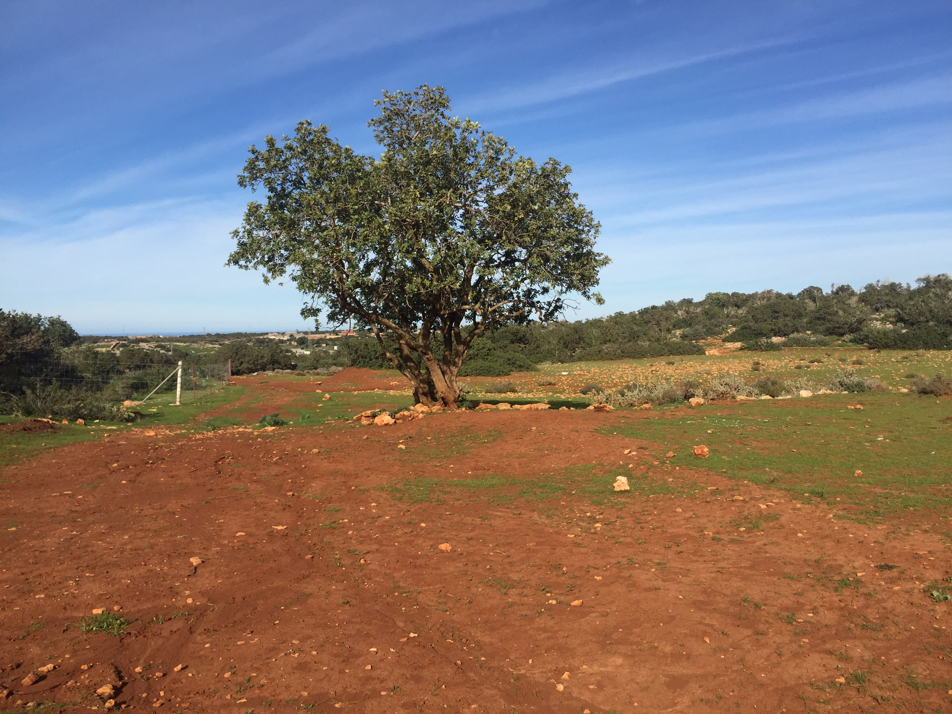 This is an image with the theme "Africa on the Move or Transport" from: Libyan Arab Jamahiriya